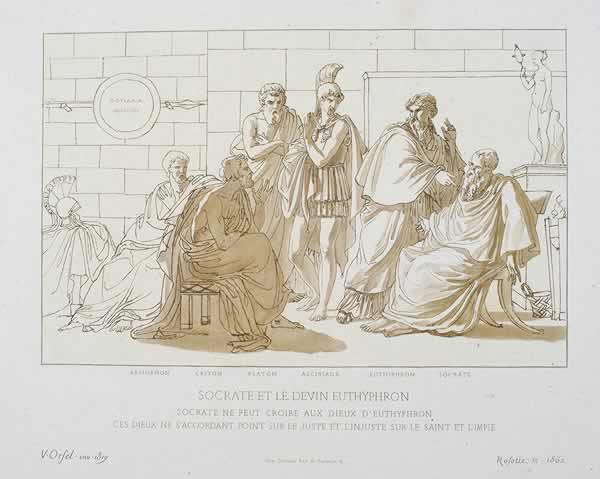 Socrate et Euthyphron. Outer Border: 28.5 x 40.2 cm.